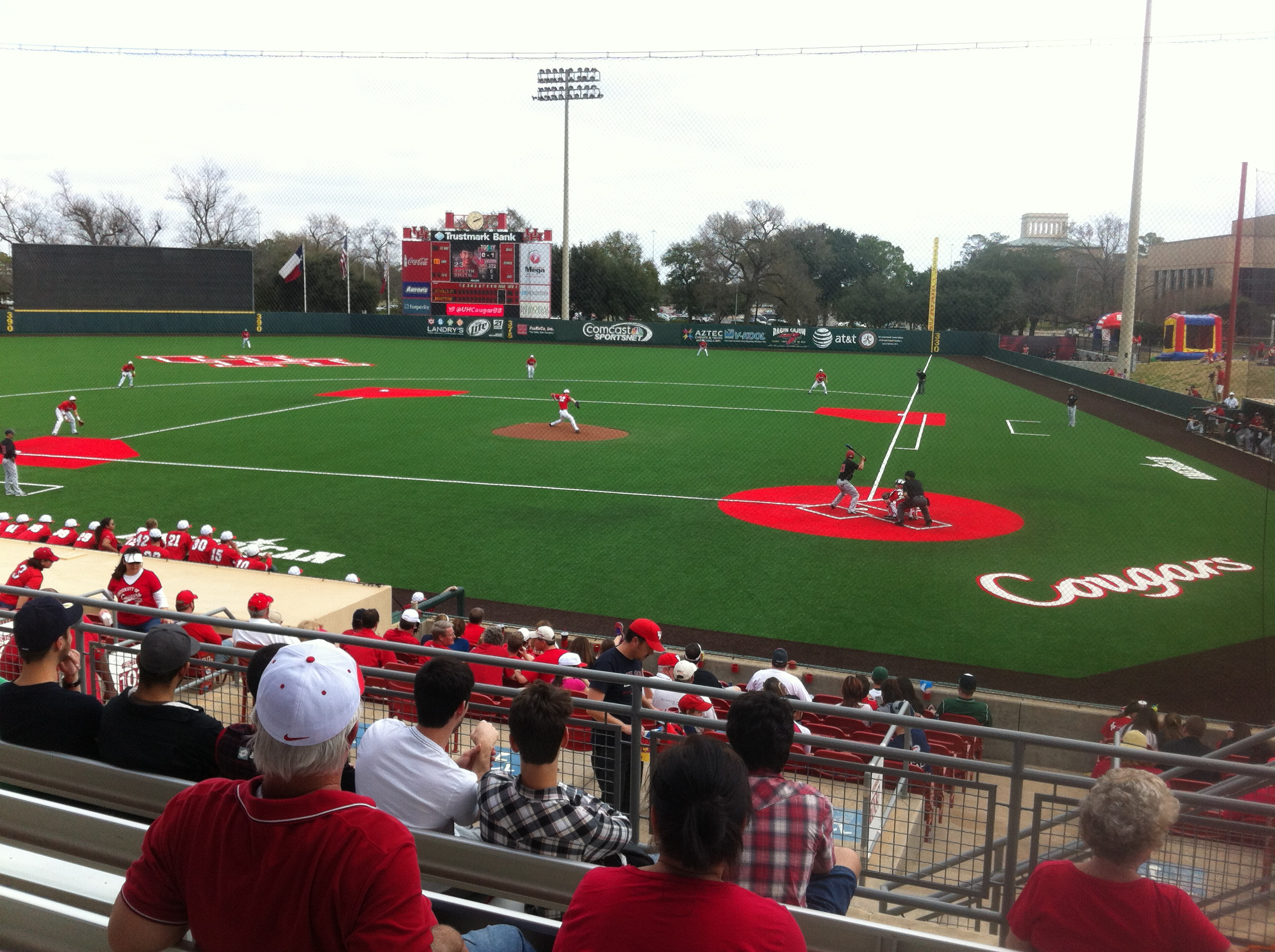 Cougar Field on-campus at the University of Houston in Houston, Texas